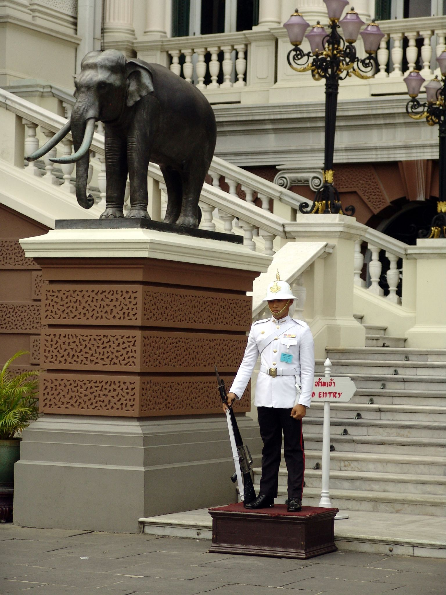 Description: Royal Guard and bronze Guardian Elephant at throne hall Phra Thinang Chakri Maha Prasat, Grand Palace of Bangkok, ThailandDSC03635